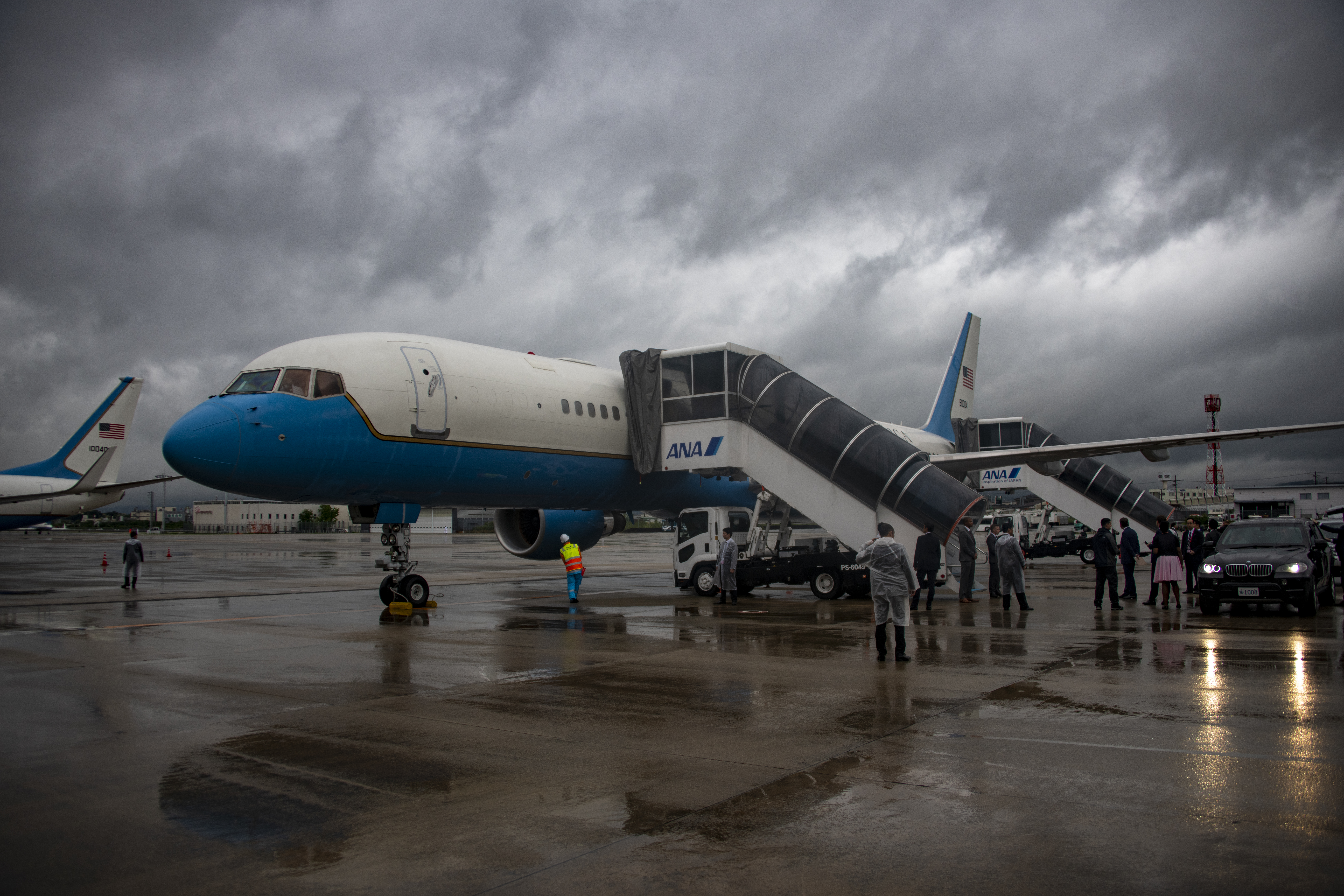 U.S. Secretary of State Michael R. Pompeo arrives Osaka, Japan on June 27, 2019. [State Department photo by Ron Przysucha/ Public Domain]